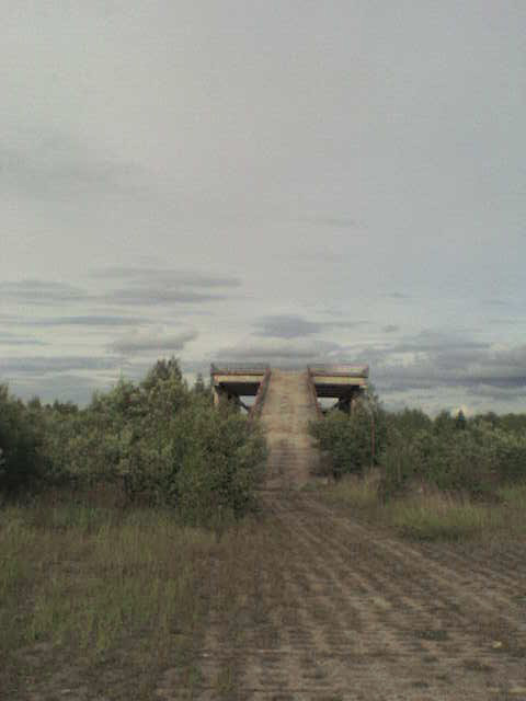 Military area of Brdy (GPS approx. 49.658,13.819)